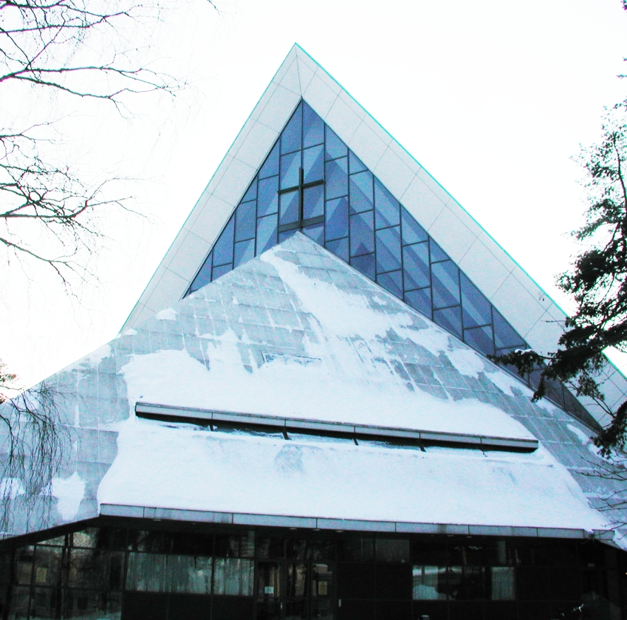 The "pyramid church" of Hyvinkää, Finland.